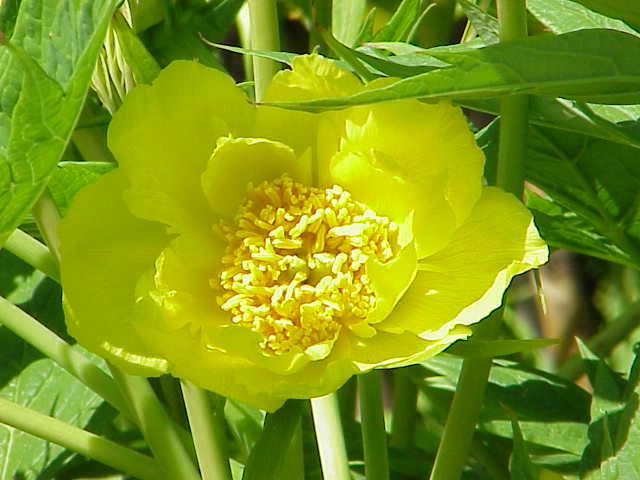 Species: Paeonia lutea Family: Paeoniaceae Image No. 4